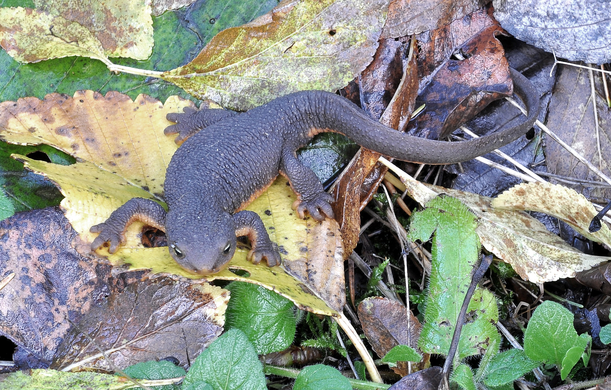 A rough-skinned newt (Taricha granulosa).